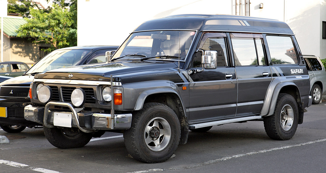 Nissan Safari van extra hi-roof 4.2D Granroad ( VRGY60 )